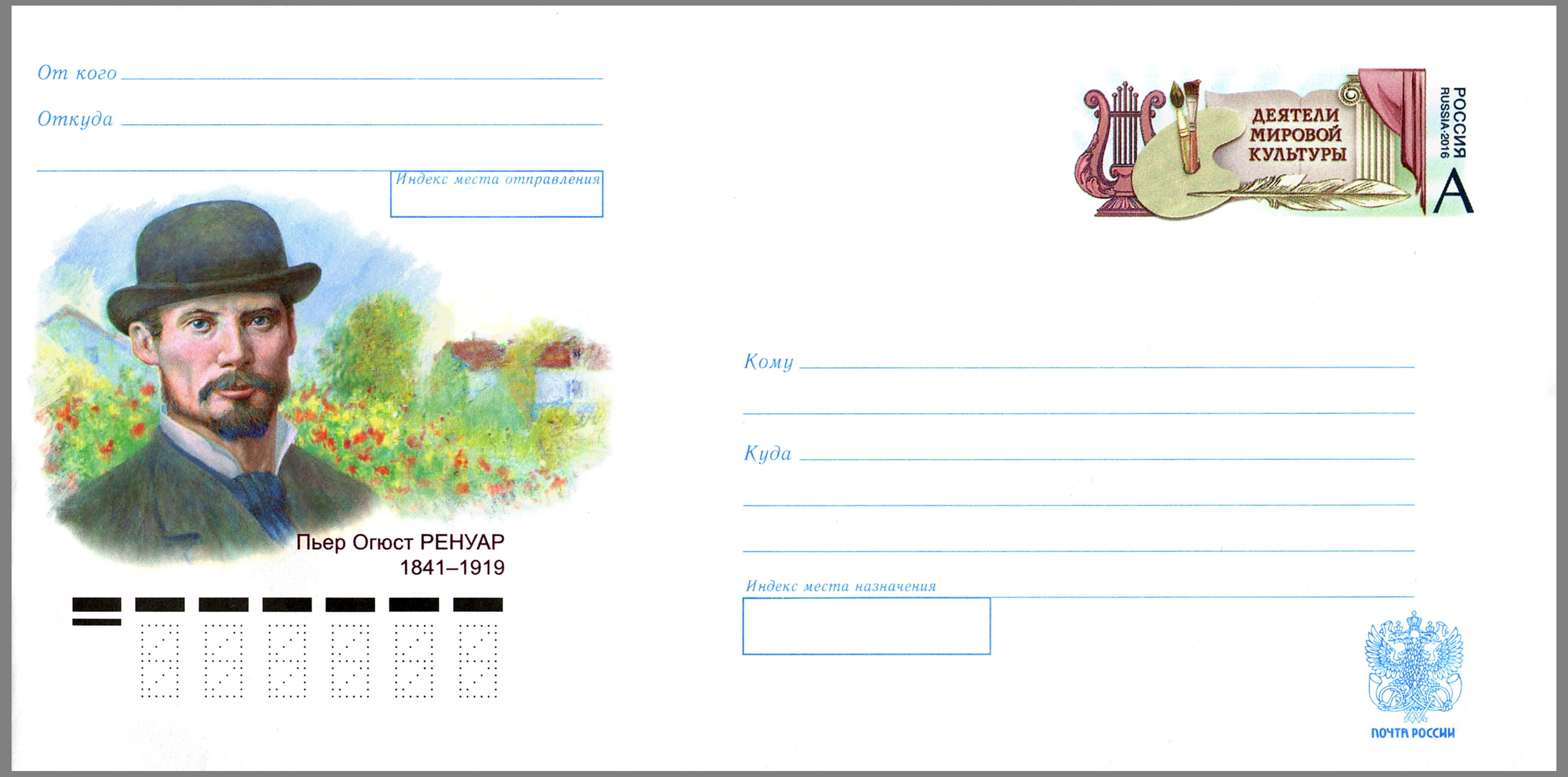 Figures of the World Culture (an ongoing series of postal stationery envelopes). The 175th birth anniversary of Pierre-Auguste Renoir (1841—1919), a French artist, a leading painter in the development of the Impressionist style. The illustrated postal stationery envelope with commemorative stamp, Russia, 03 March 2016. PTC Marka Catalogue No. 279/кор-16. Envelope paper VBM (ВБМ) with watermarks “ПОЧТА РОССИИ”. Offset printing. Size of the envelope: 110×220 mm. Print run: 1,000,000. The non-denominated stamp of the ongoing series with symbols of arts (“Letter A”, for domestic letters, weight 20 g or less). The illustration: the portrait of Pierre-Auguste Renoir.